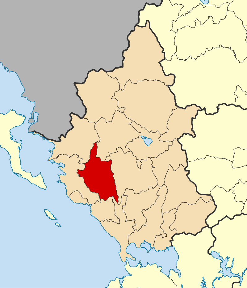 Locator map for Souli municipality in Greek region Epirus (2011)